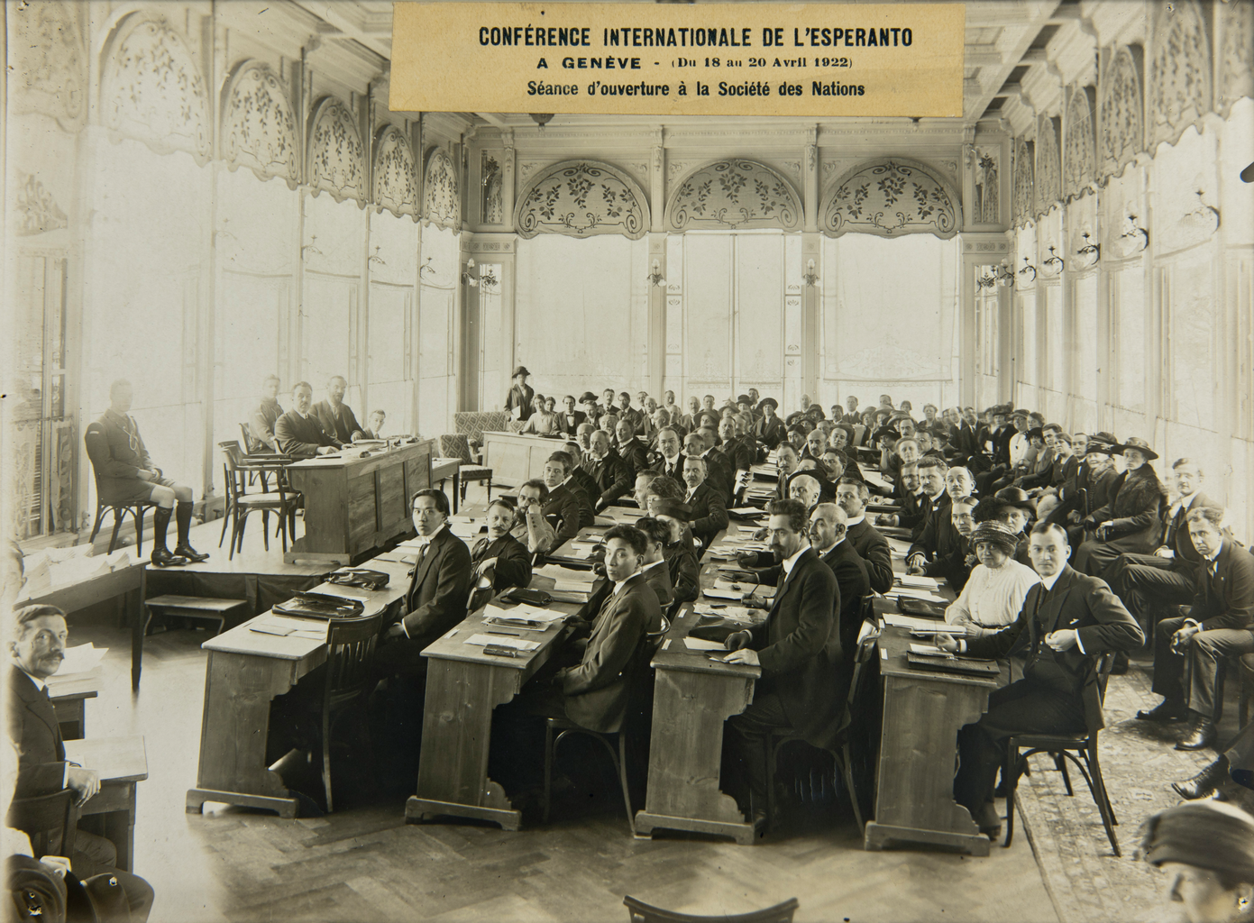 Esperanto is a synthetic language devised by Polish eye doctor Ludwik Lazar Zamenhof (1859–1917), who in 1887 published a pamphlet in Russian, Polish, French, and German describing Esperanto and proposing it as an easy-to-learn second language. An international Esperanto movement developed in the 1890s, culminating in the first world congress of Esperanto speakers in 1905. After World War I, the League of Nations considered adopting Esperanto as a working language and recommending that it be taught in schools, but proposals along these lines were vetoed by France. The League sponsored an international conference regarding the use of Esperanto, which took place in Geneva on April 18–20, 1922. This photograph shows the opening session of the conference. The League of Nations had two working languages: English and French. The photograph is from the archives of the League, which were transferred to the United Nations in 1946 and are housed at the UN office in Geneva. They were inscribed on the UNESCO Memory of the World register in 2010. Esperanto; Group portraits; League of Nations; Memory of the World; Portrait photographs